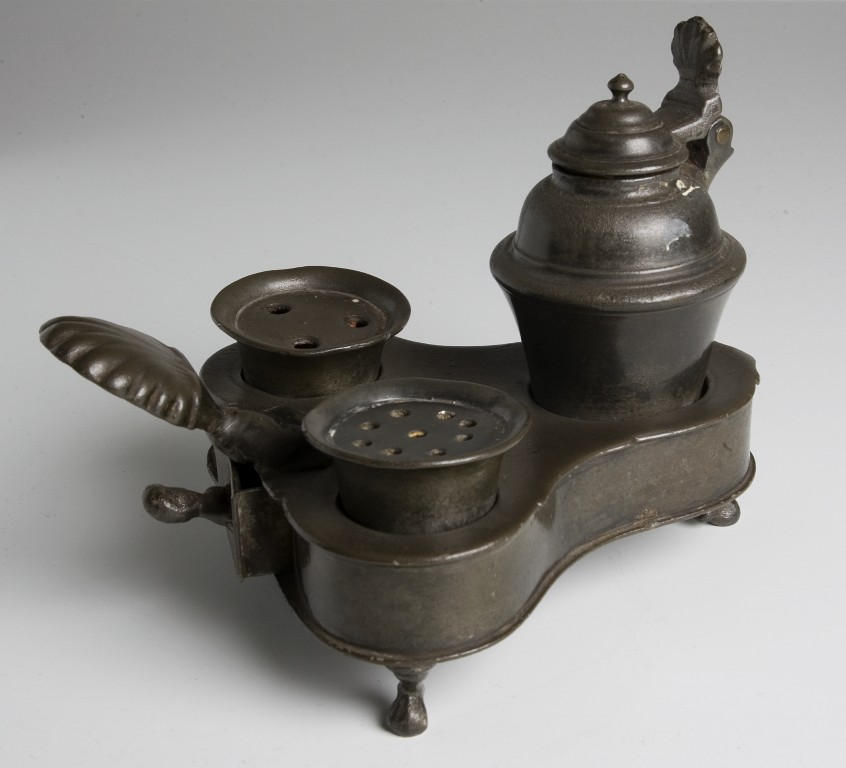 Pieter Teyler's ink stand. Collection Teylers Museum, Haarlem, the Netherlands.